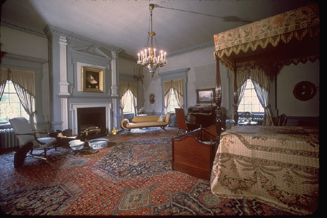 Bedroom interior, Hampton National Historic Site, Hampton, Maryland/Towson, Maryland.